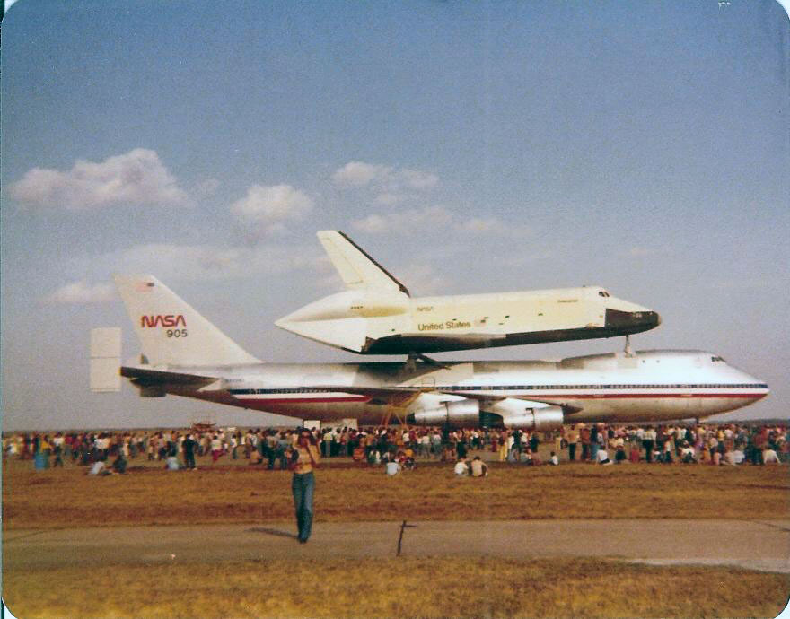 Space Shuttle Enterprise atop the Shuttle Carrier Aircraft at Ellington Airfield.